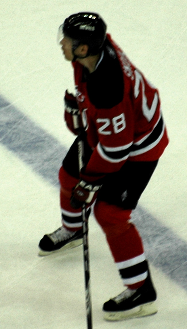 Martin Škoula plays with Devils against Chicago